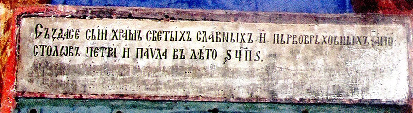 Orlitsa Inscription 1478